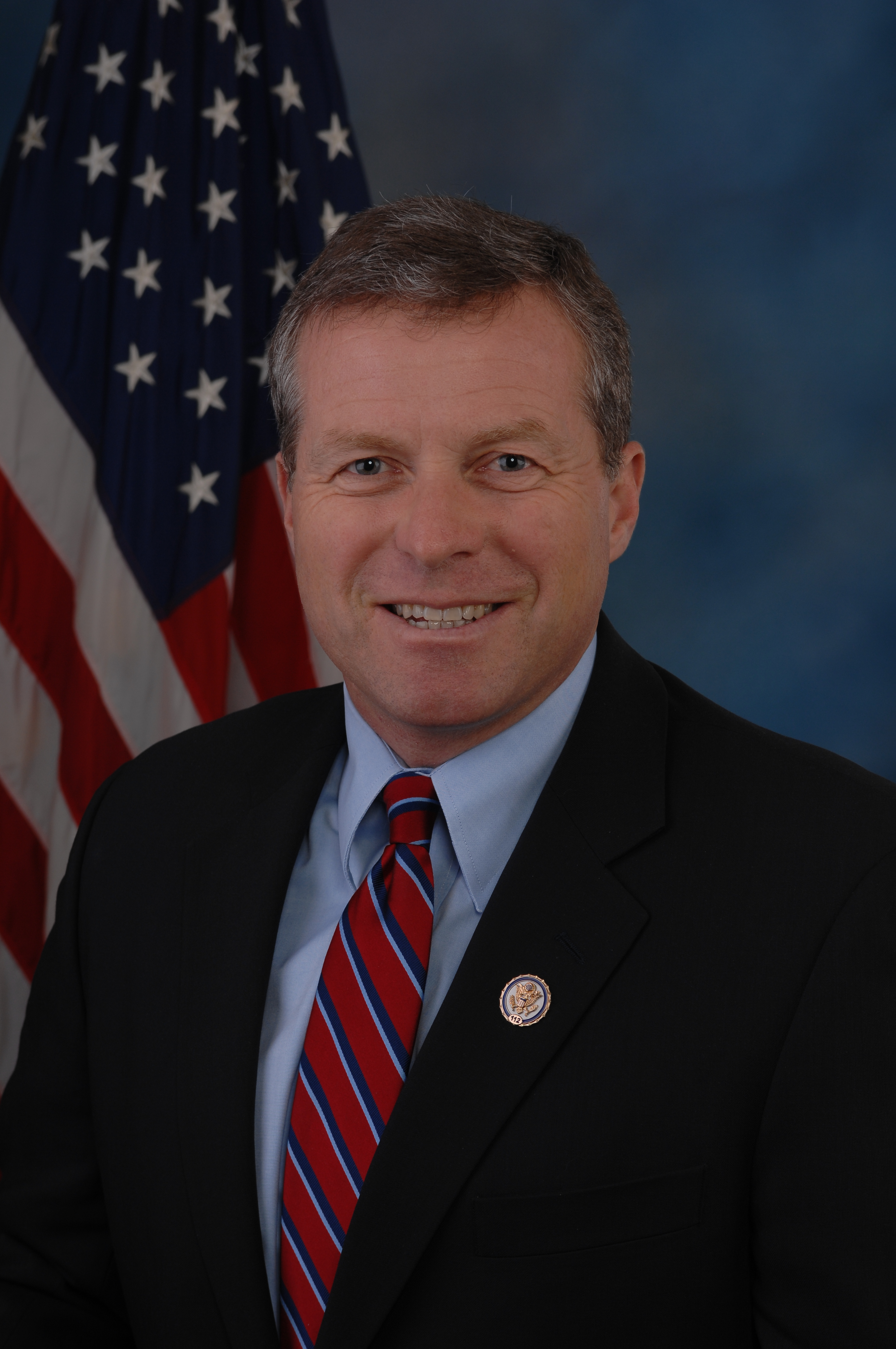 Charlie Dent, member of the United States House of Representatives.